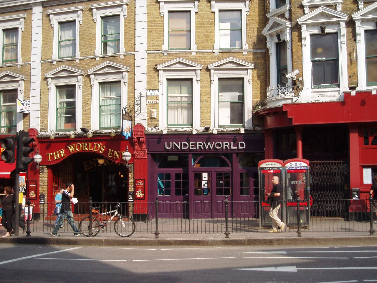 Attached to The World's End pub, but with a separate entrance, this bar/club is situated predictably underground. It puts on live music, generally of the goth/metal variety.